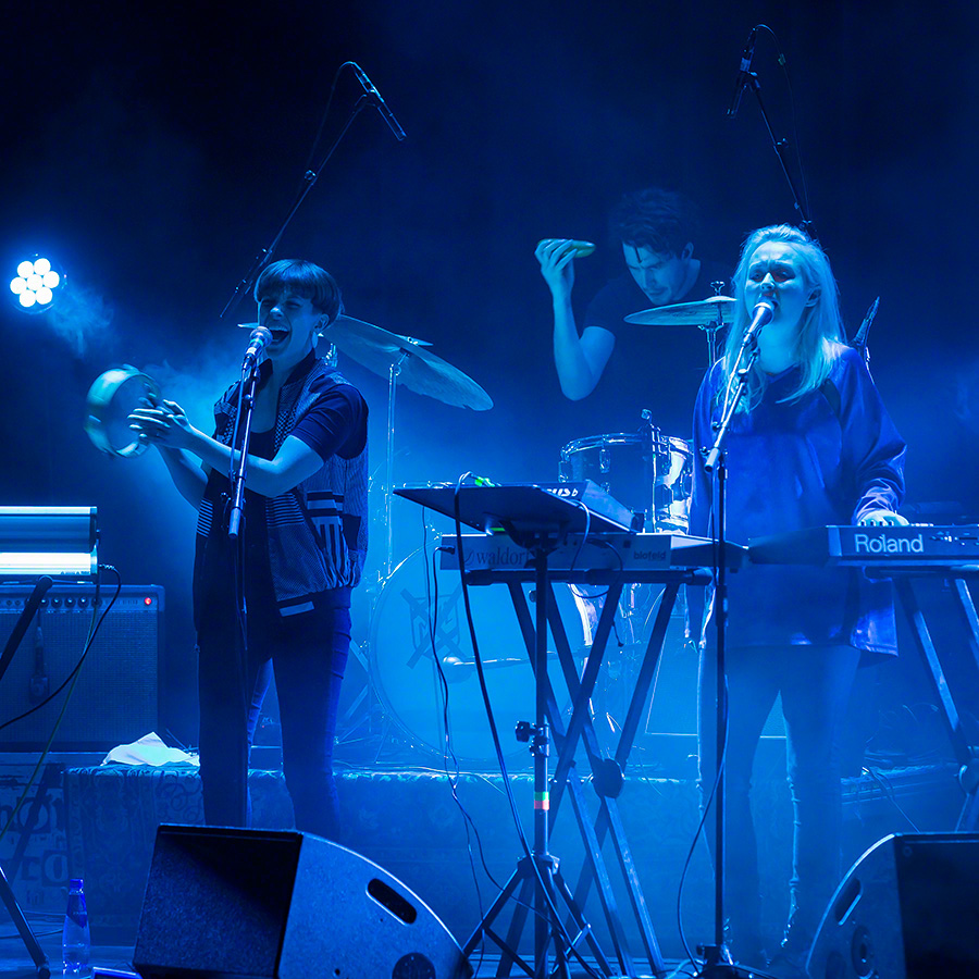 'Bow to each other' is performing at Cosmopolite Scene in Oslo. The band consists of Gunnhild Ramsay Kristoffersen from Norway and Megan Kovacs from Canada.